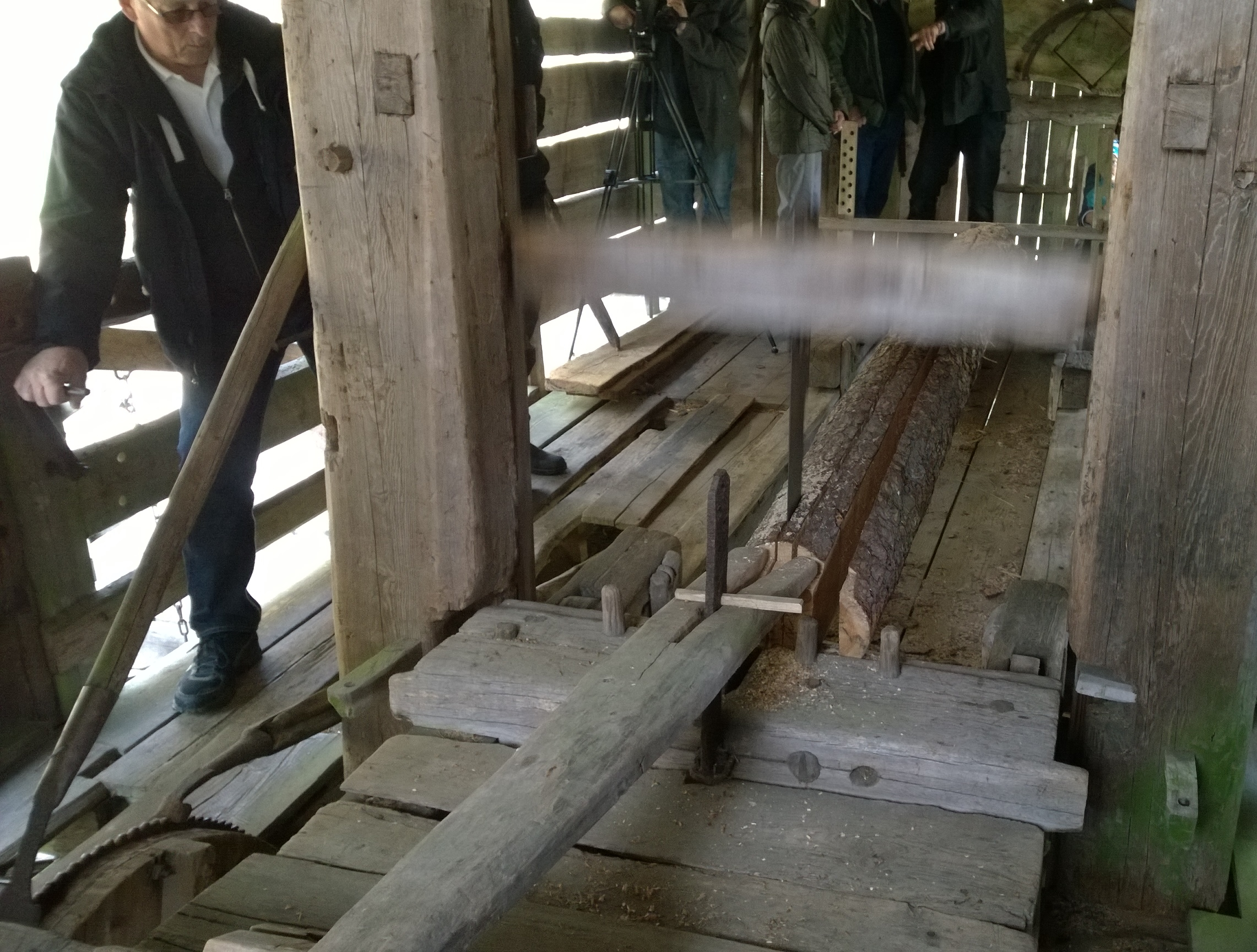 Saw In Action